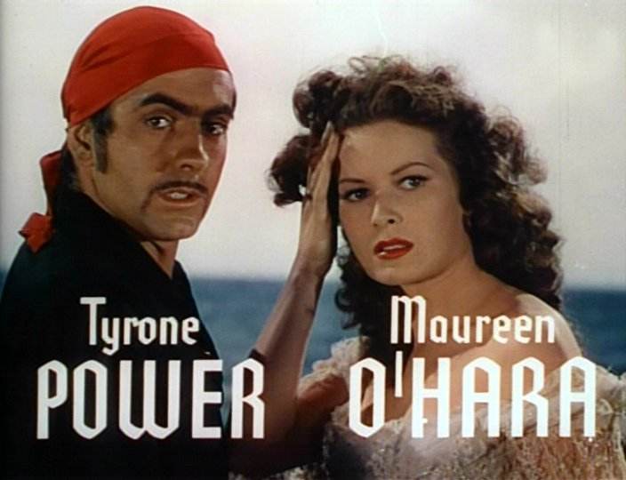 Tyrone Power and Maureen O'Hara in a screenshot from the trailer for the film The Black Swan.